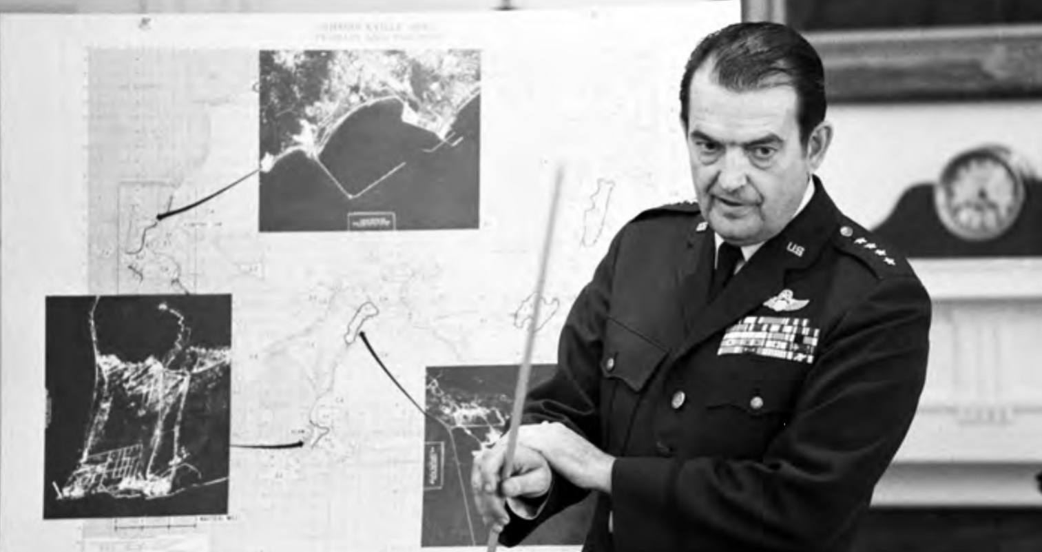 General David Jones—the acting chairman of the Joint Chiefs of Staff—shows aerial photographs of Cambodia next to a chart displaying arrival times for US forces during the second National Security Council meeting at that time of Mayaguez Incident.